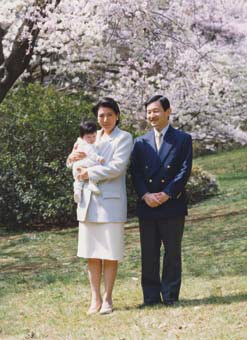 Imperial Prince Naruhito (The present 126th Emperor), Princess Masako (present empress) and Imperial Princess Aiko